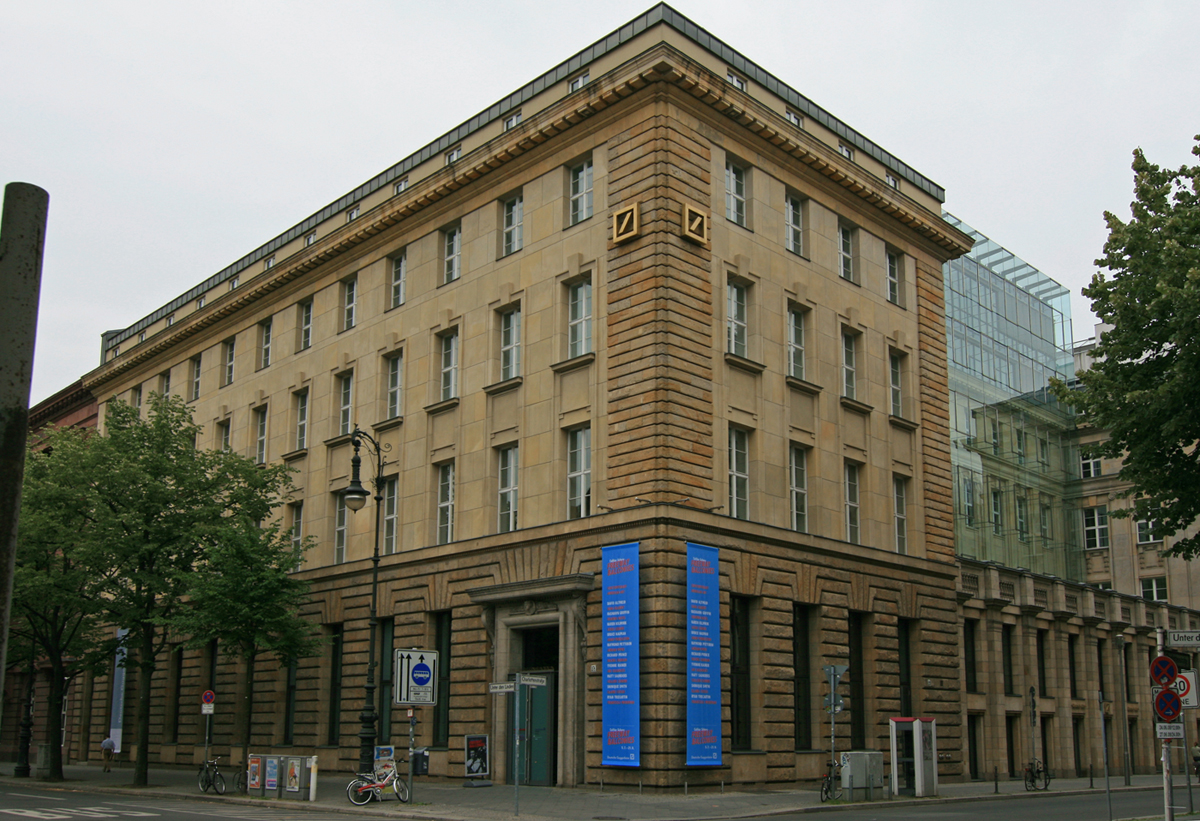 German Guggenheim, Berlin.